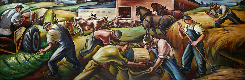 A mural by U.S. Treasury Section of Painting and Sculpture artist Carl Morris showing agriculture workers; funded by the U.S. Treasury Section of Painting and Sculpture for the Eugene, Oregon Post Office; painted in 1942 and installed in 1943, Oregon Blue Book